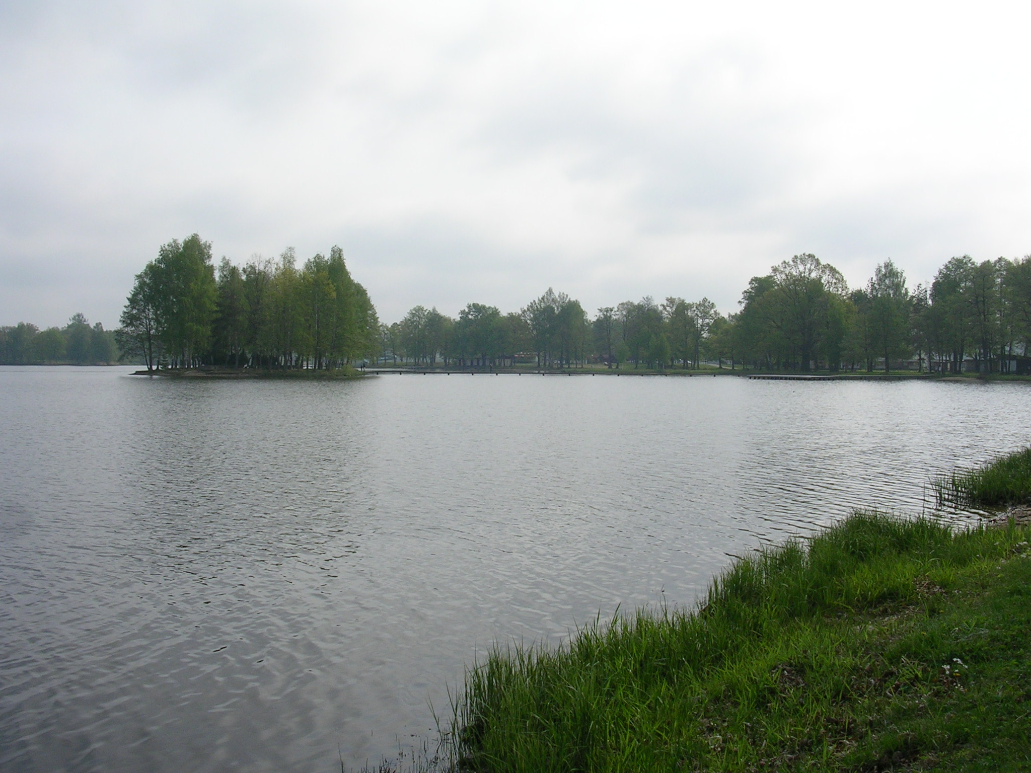 Chlum u Třeboně, South Bohemian Region, the Czech Republic.